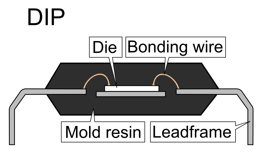 Schematic of a dual in-line package (DIP).